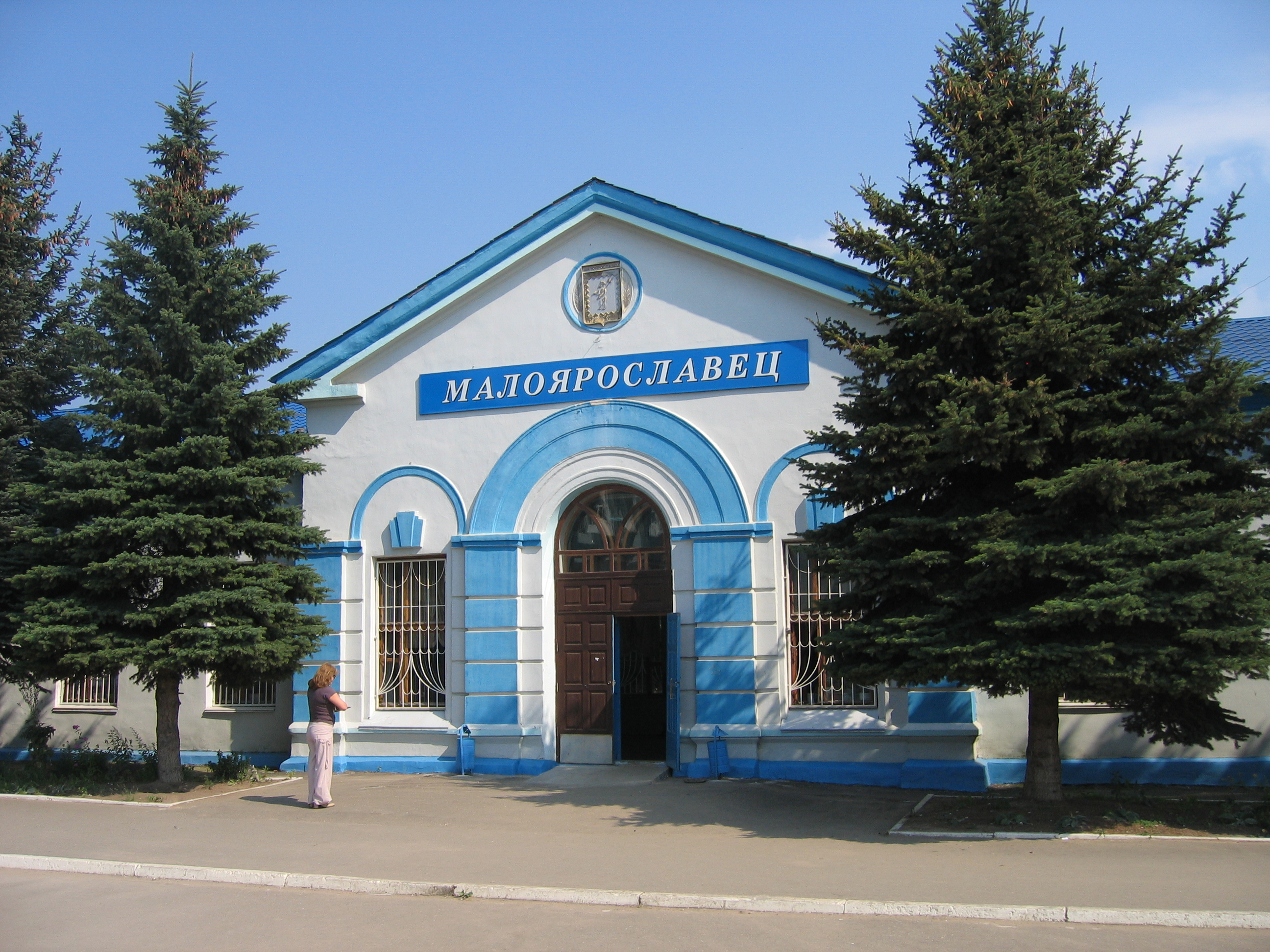 Train station in Maloyaroslavets, Russia